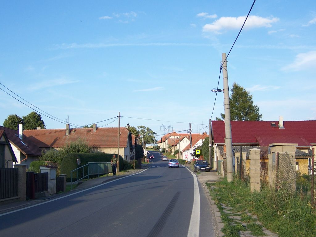 Zlatá